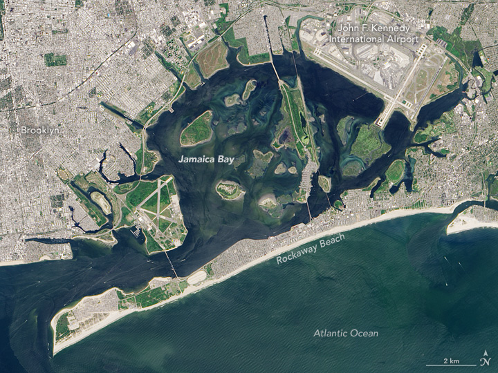 Nestled under the crook of Brooklyn, Jamaica Bay is a place as different from New York City as you can find. A rare haven amid the urban gridlock, it borders some of the most densely populated counties in the United States. On August 26, 2016, the Operational Land Imager (OLI) on the Landsat 8 satellite captured a natural-color view of the bay. The image was acquired at 11:39 a.m. Eastern Time, just before the low tide. Sediment clouds the water, a result of the ebbing tide passing between a handful of small islands in the bay. Just across the peninsula, south of the Rockaways, larger waves create a marbled pattern on the Atlantic Ocean. Despite the calm of the bay, there are constant reminders that this is, in fact, New York City. A road and train track cuts through the center of the bay, along the Jamaica Bay Wildlife Refuge. Dozens of times a day, the subway clatters through. Planes roar overhead on their arrival and departure from John F. Kennedy International Airport, built on marshland at the bay’s northeastern edge. In summer months, city dwellers laden with towels and sunscreen pass through the bay on their way south to beaches in the Rockaways. But Jamaica Bay is a destination in its own right. Each year, thousands of bird watchers and kayakers come here for the wildlife. Part of the Gateway National Recreation Area (wider view below), the bay is home to hundreds of native species, including horseshoe crabs and nesting birds like the osprey. Conservation groups are working to make the bay’s waters even cleaner. Long plagued by pollution, the bay has been a focus of efforts to repopulate the city’s waters with oysters. In 2016, seeds for 50,000 of the mollusks were planted in its waters.